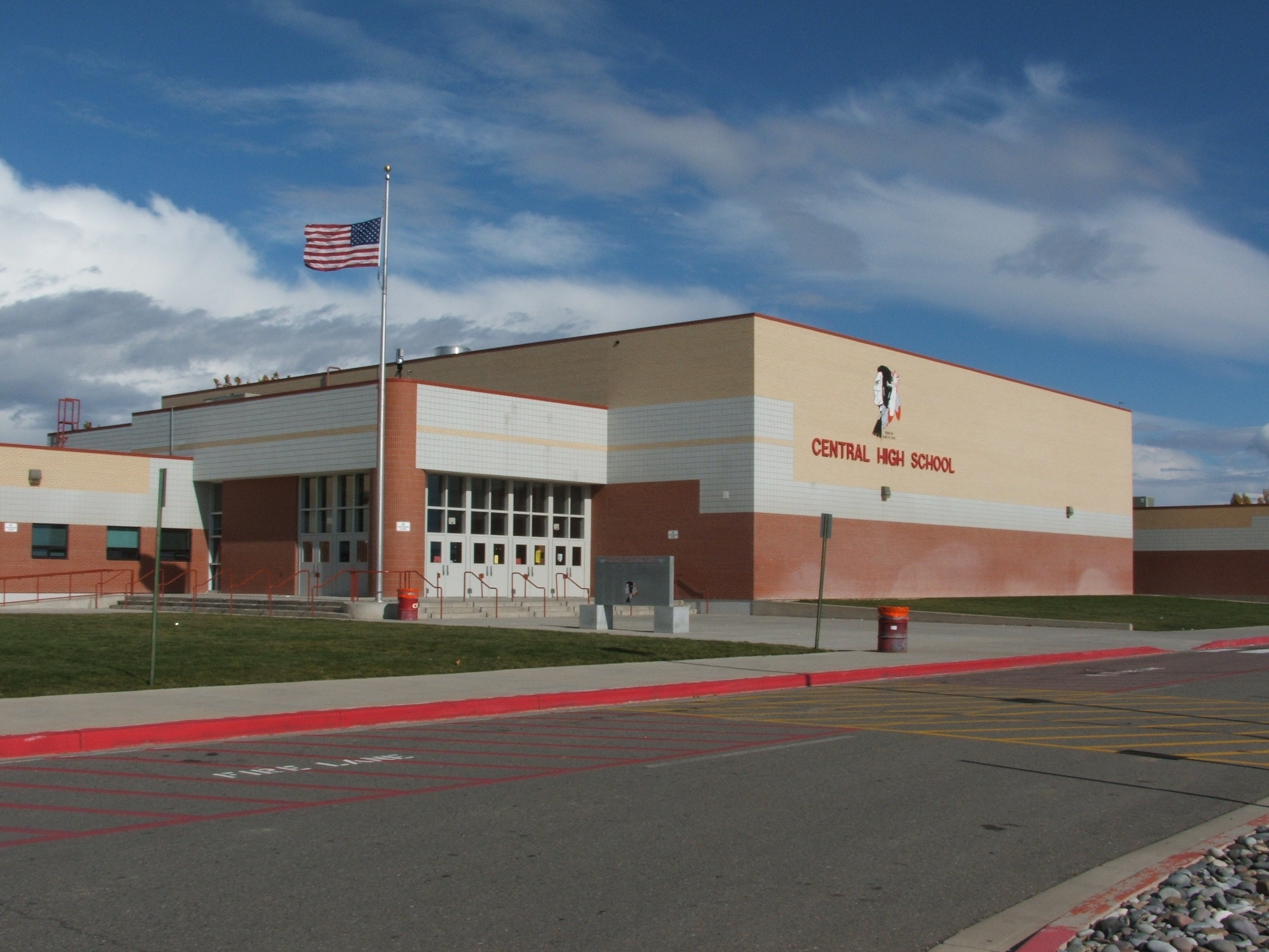 The front of the Central High School building